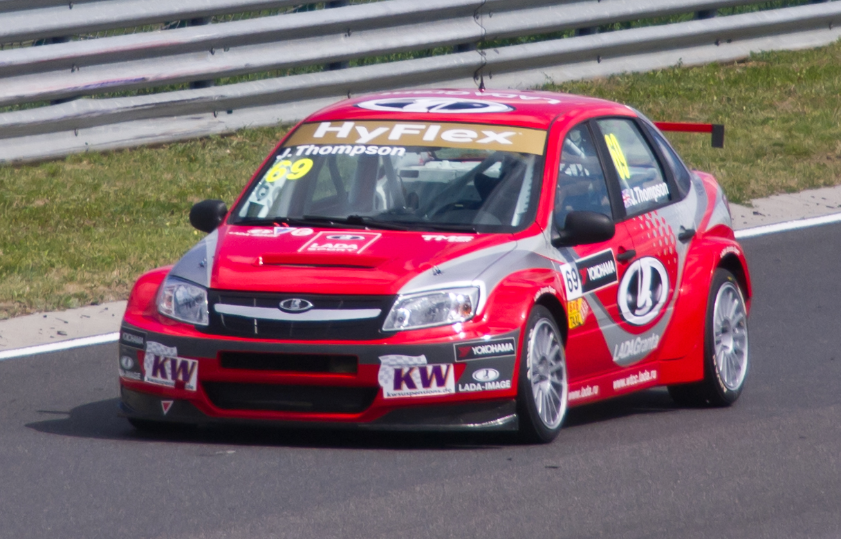 Lada Granta WTCC 2012 Race of Hungary James Thomson